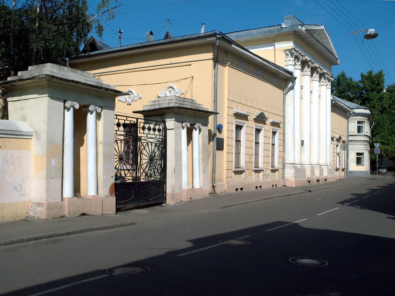 Potapovsky Lane, Moscow.